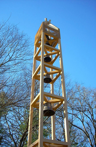 Bratton Carillon on Reinhardt's central campus